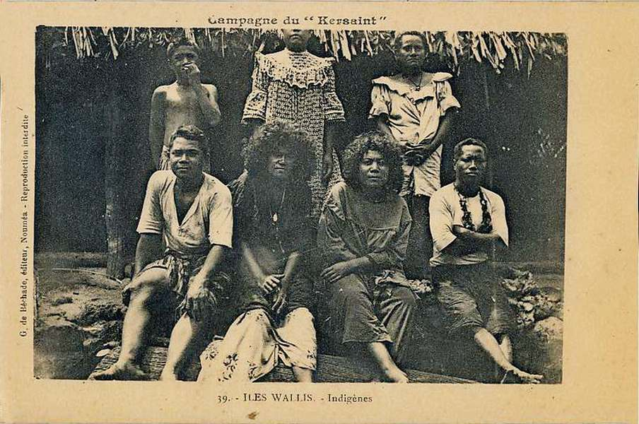 A group of Wallisian people on Wallis Island (Uvea) photographed by sailors of the French ship Kersaint. Date : between 1907 and 1919.